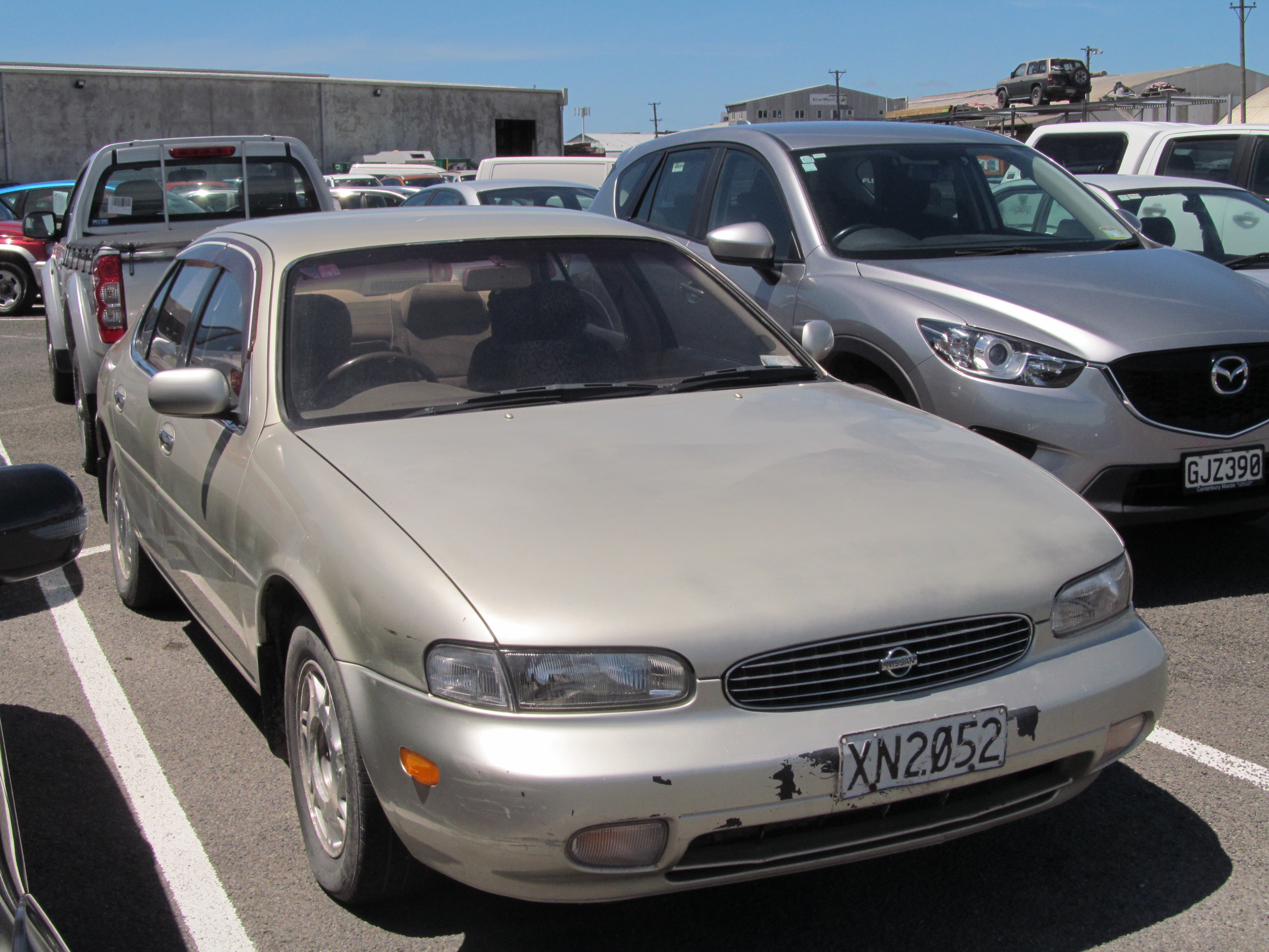 The first Infiniti to be sold in Japan under the Nissan nameplate. These are quite hard to come by in New Zealand. Though you can't see it here the seat covers were ironically leopard print...